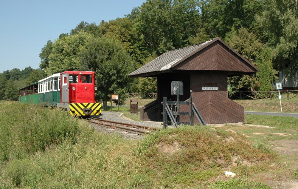 Kistolmács station with train in the Csömödér-Kistolmács narrow gauge railway